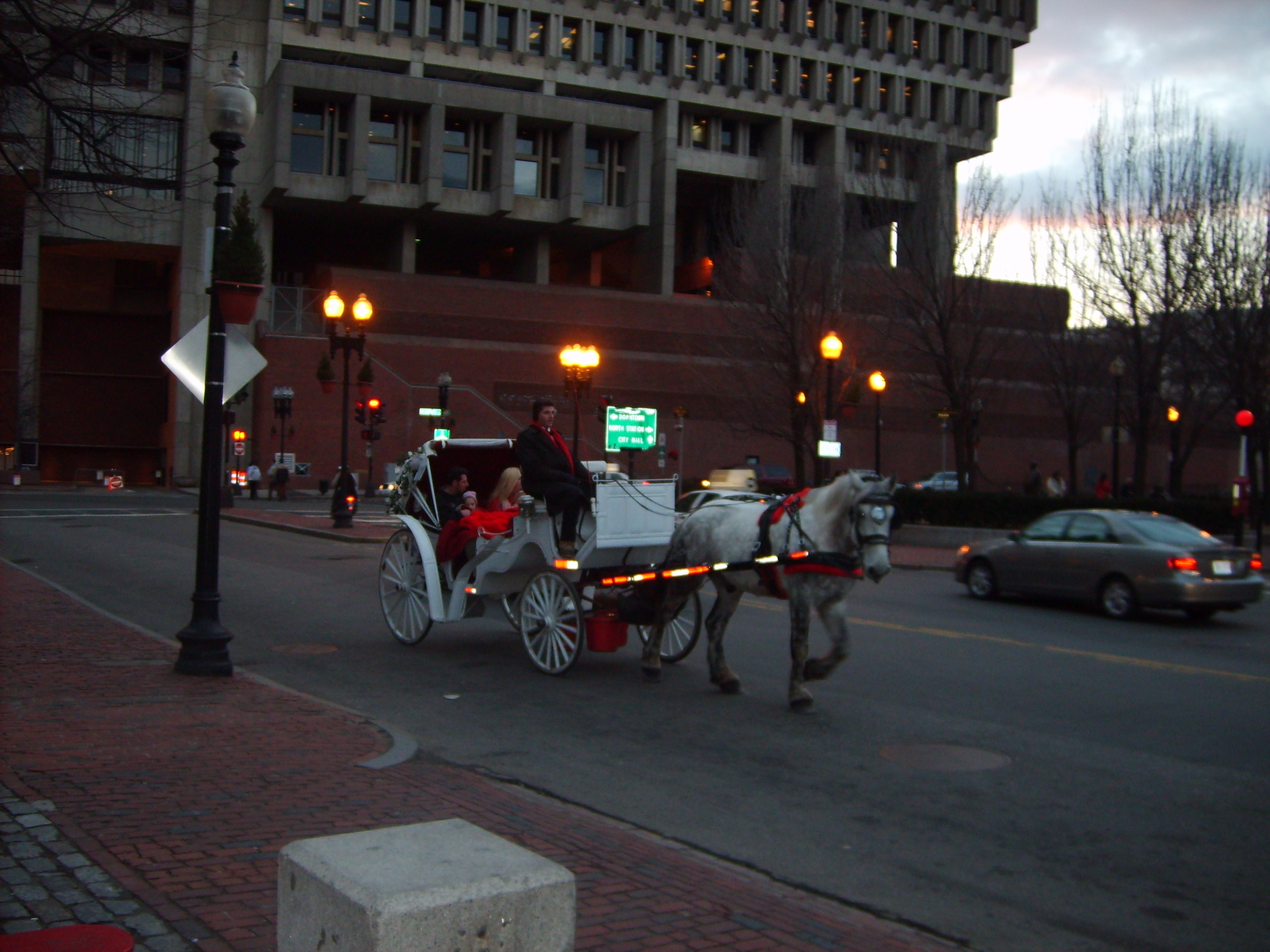 Photo of a horse and cart from Boston Bridal Carriage Company ( in Boston, near Government Center